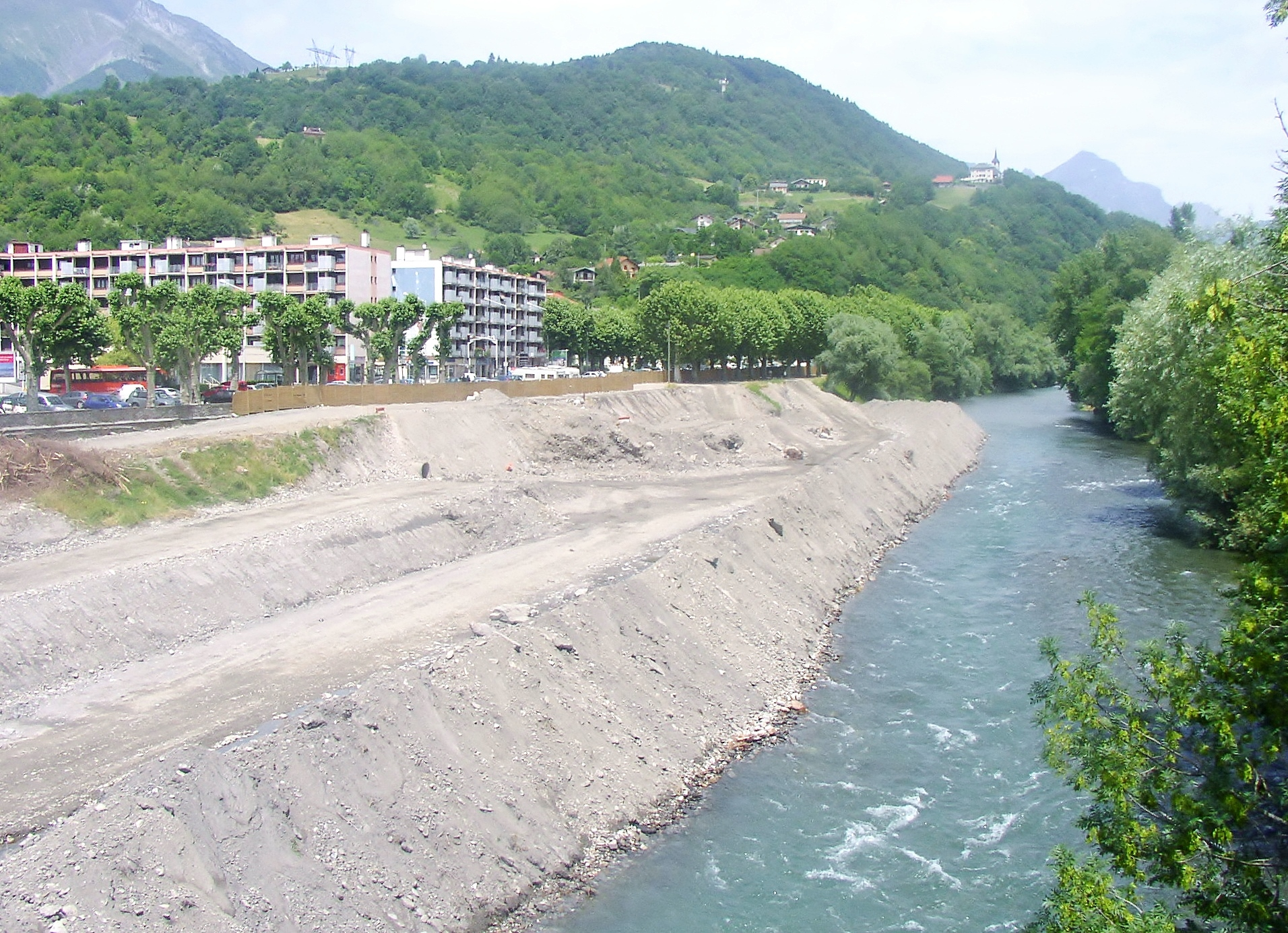 Sight of the construction works, of the last kilometer of the Route Départementale 1212 Road bypassing Albertville downtown along the Arly river, Savoie, France.